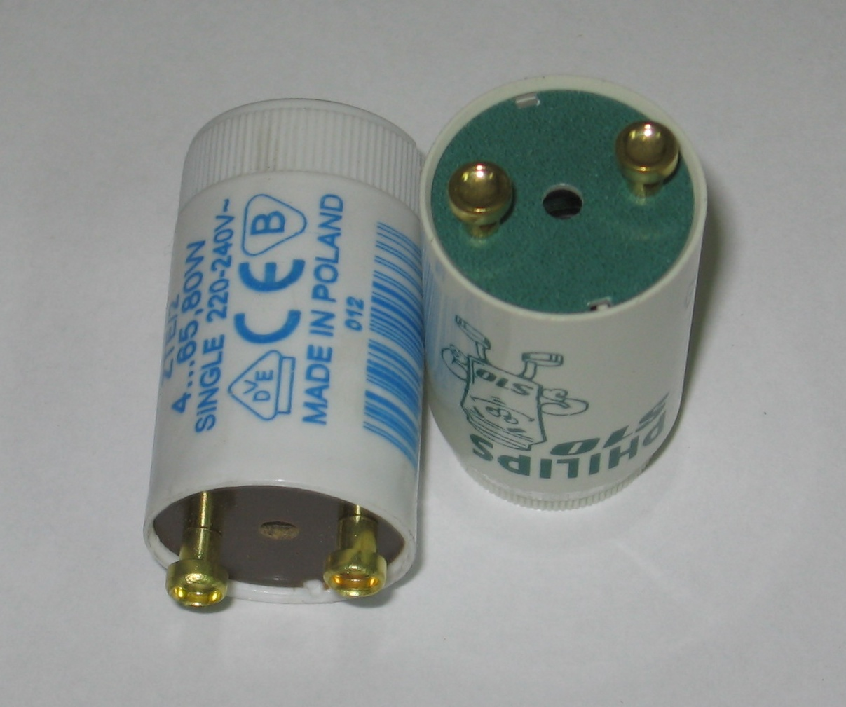 Starters for fluorescent lamps